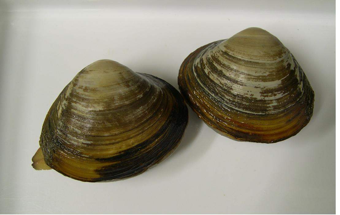 Spisula (Pseudocardium sachalinensis) (Mollusca:Bivalvia:Mactridae) harvested off the Pacific coast of northern Honshu (Iwaki, Fukushima Pref.), Japan. Date: 5 July 2005 Source: user:たかはし